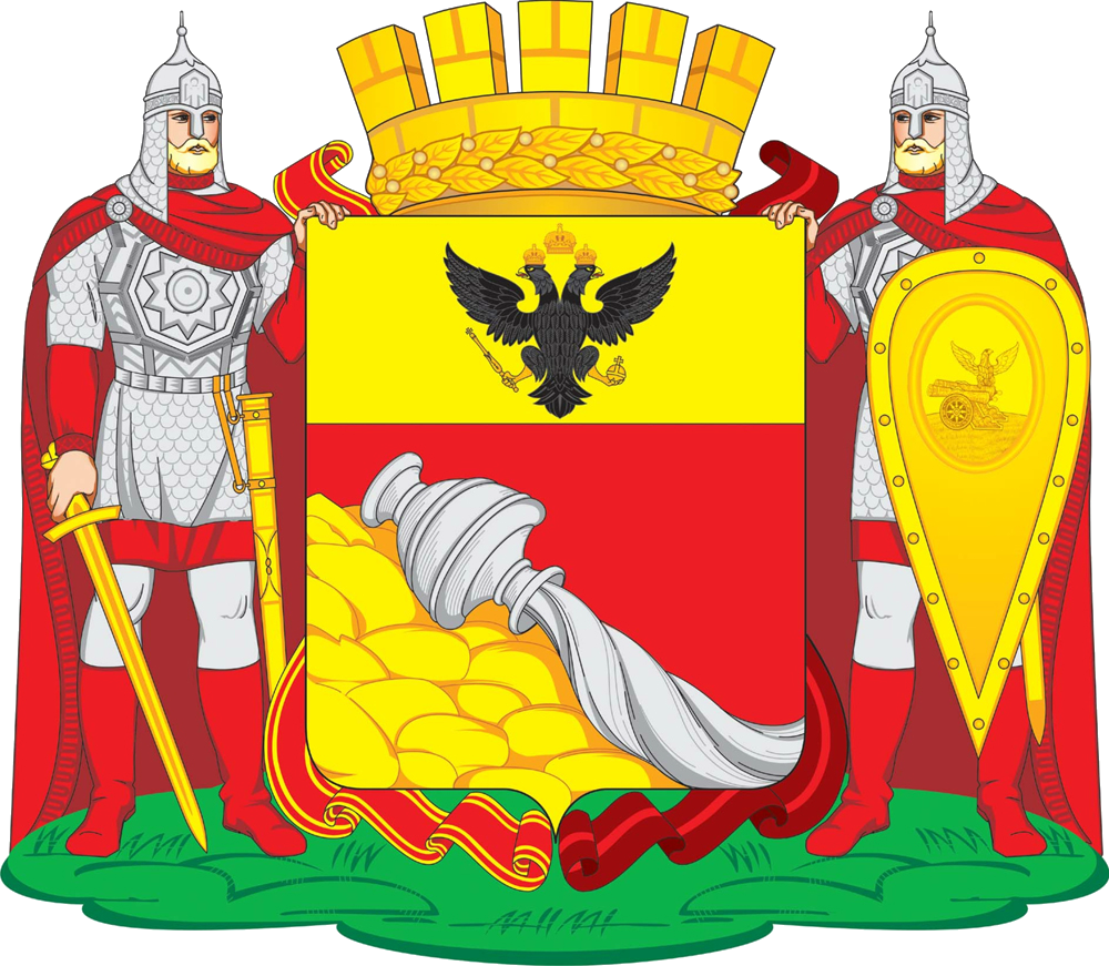 Voronezh, coat of arms since 2008